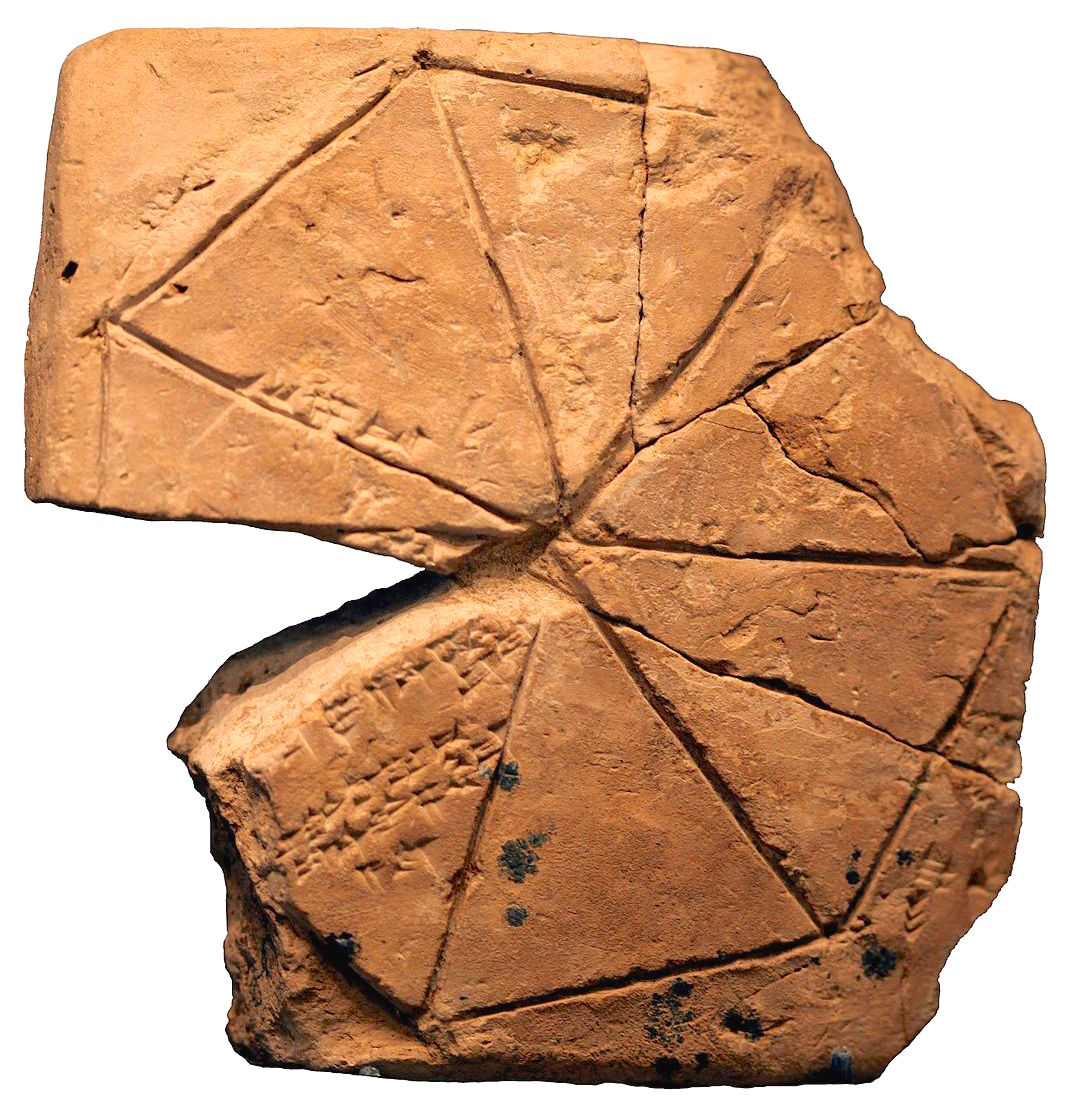 These tablets probably belonged to a school for scribs